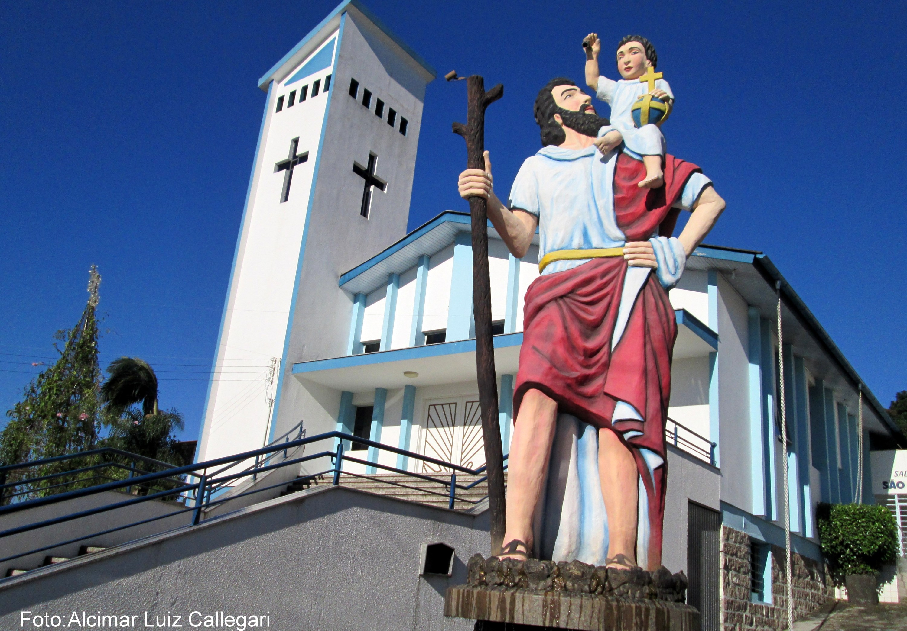 Igreja São Cristóvão, Bairro São Cristóvão Criciúma SC